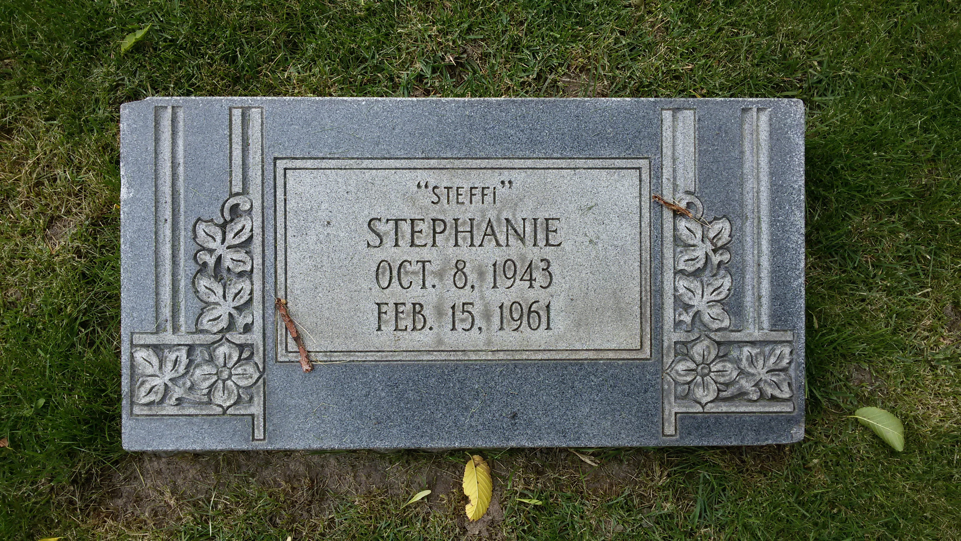 Grave of American figure skater Stephanie Westerfeld in Evergreen Cemetery, Colorado Springs. She died with her sister Sharon on February 15, 1961 when Sabena Flight 548 crashed on its way to the World Championships in Prague